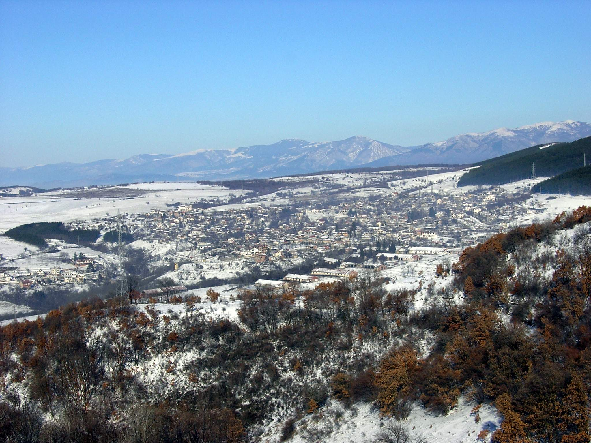 Bulgarian village Zmeiovo - general view